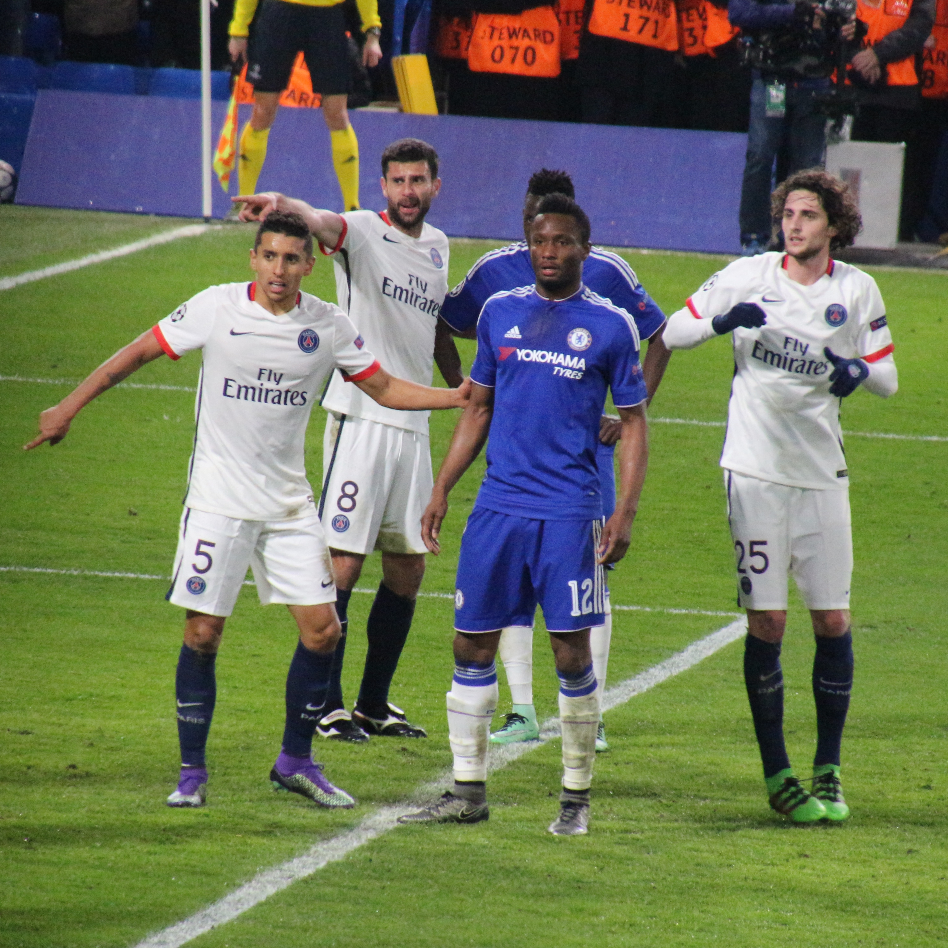 PSG win 4-2 over two legs